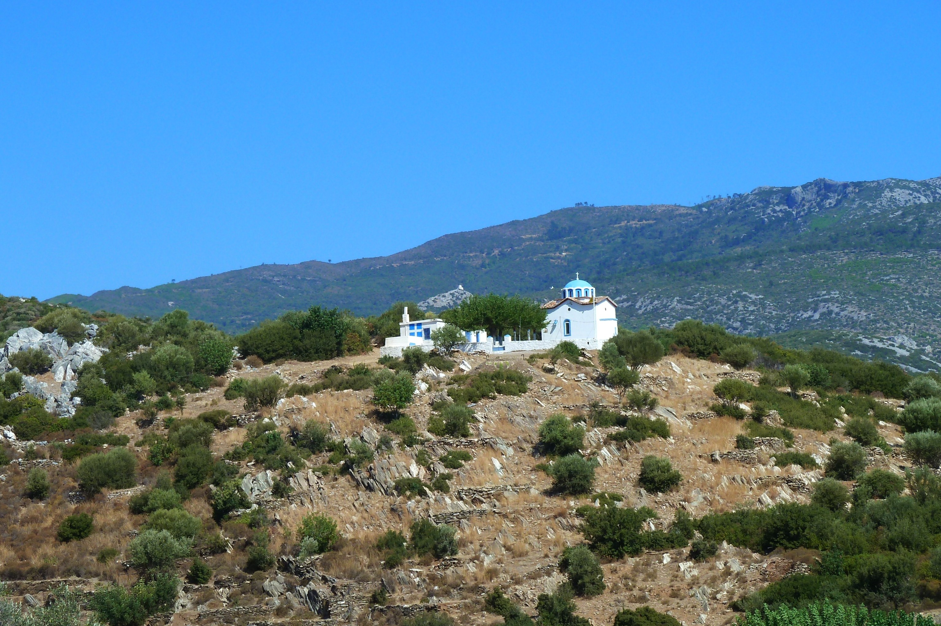 Small church above Myli, a village on the Greek island of Samos